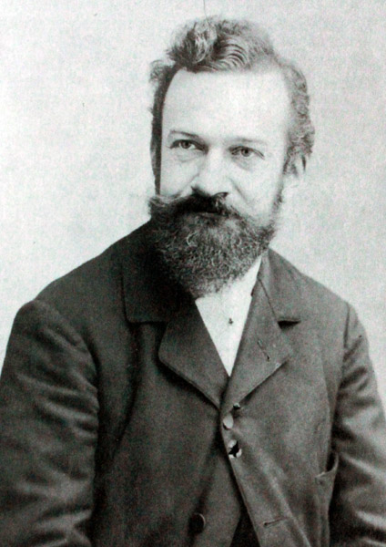 Charles-Frédéric Victor Vernon (1858 - 1912), Engravers from France